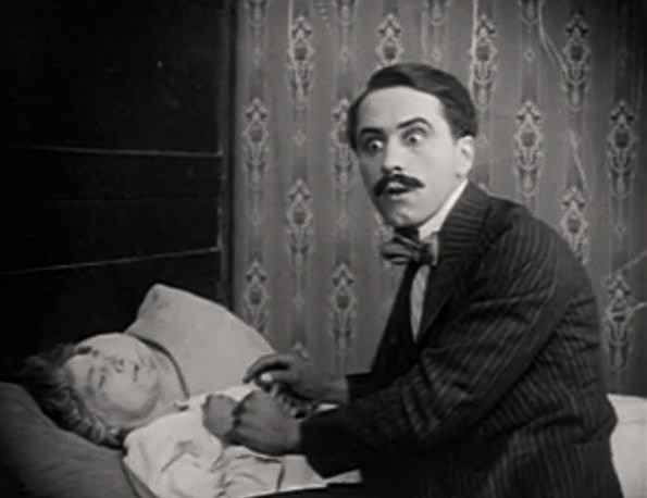 George Beranger in Flirting with Fate - cropped screenshot